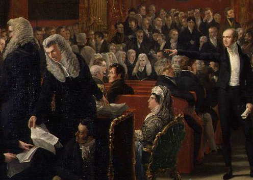 (detail from) The Trial of Queen Caroline 1820 by Sir George Hayter - left to right: Stephen Lushington (in wig with back to painter); Henry Brougham (in wig handing sheet of paper downwards); William Vizard, the Queen's solicitor (on floor beneath Brougham); Lord Lauderdale (sitting on bench with back to painter); Lord Chancellor Lord Eldon (seated in background facing front); Queen Caroline; Lord Grey (with extended arm); Lord Effingham (beneath Lord Grey's hand facing Grey). Note this is an extract from a much larger painting.